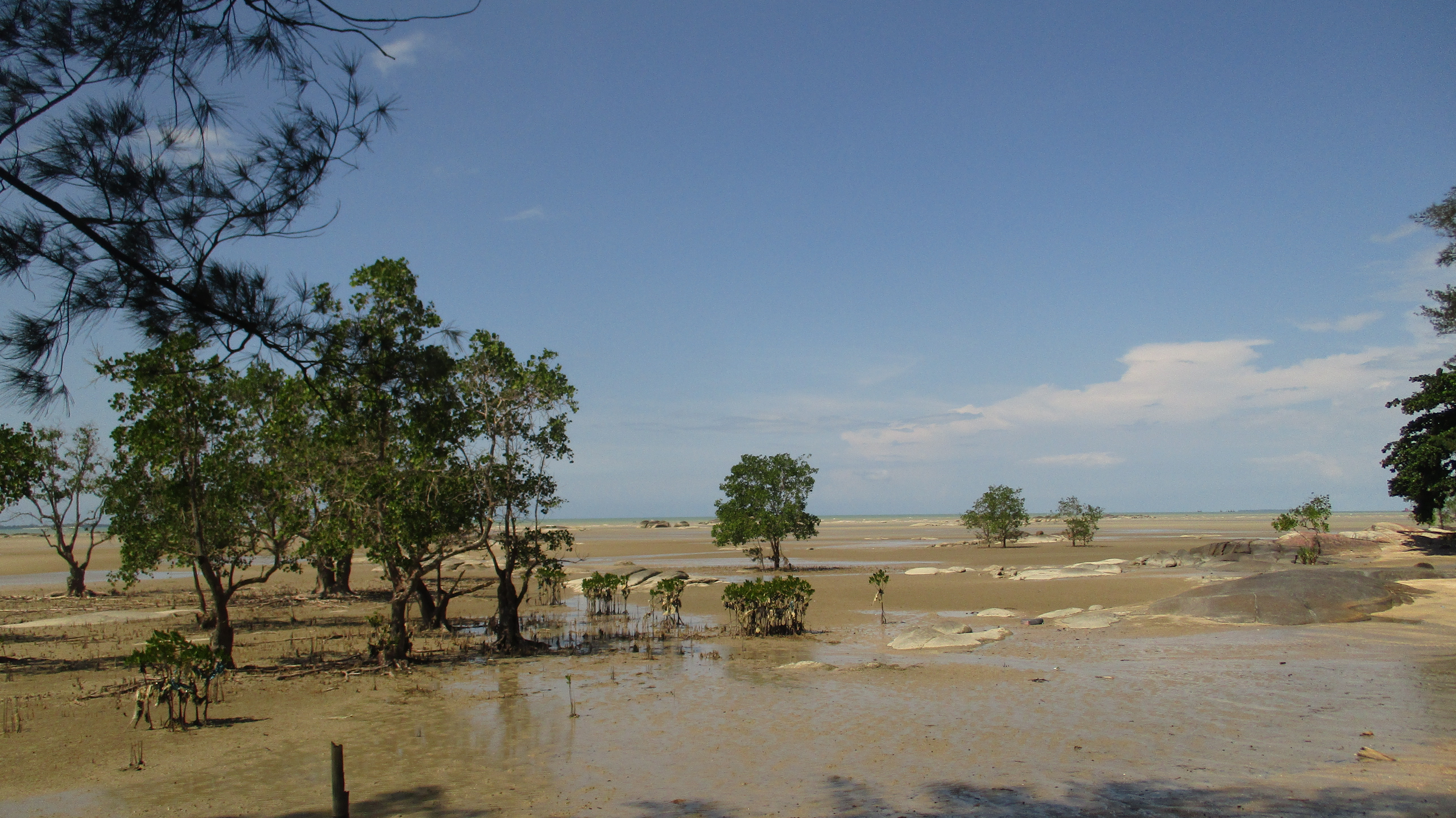 Pantai Tapak Antu, Pangkalan Baru, Kabupaten Bangka Tengah